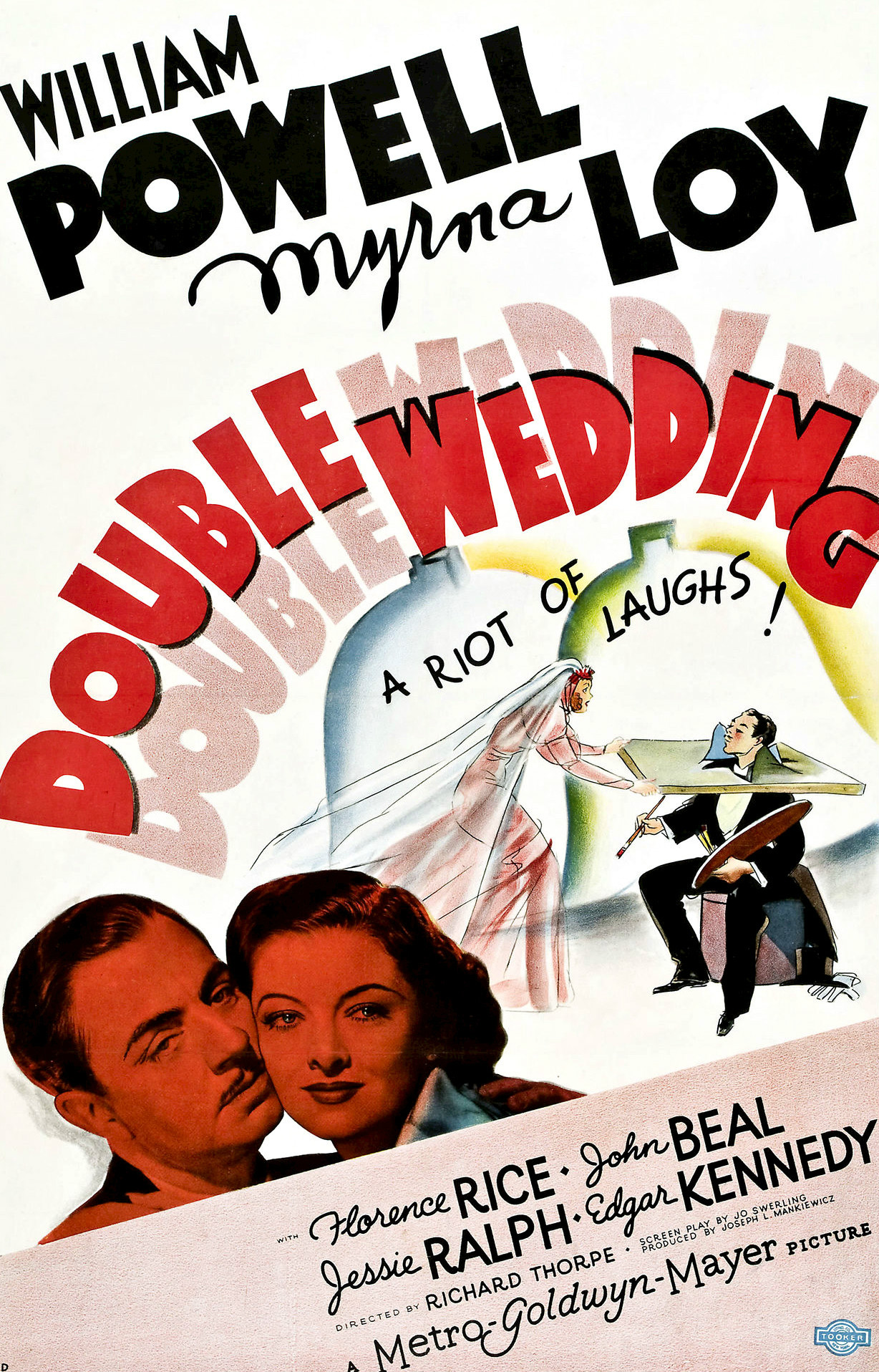 Poster for the 1937 film Double Wedding. The item has no copyright markings on it as can be seen in the links above. At bottom is a letter "D" (poster version D), Litho in USA and some numbers which probably pertain to the print job for the poster. At bottom right is a logo for the Tooker Litho Company--they printed the poster.